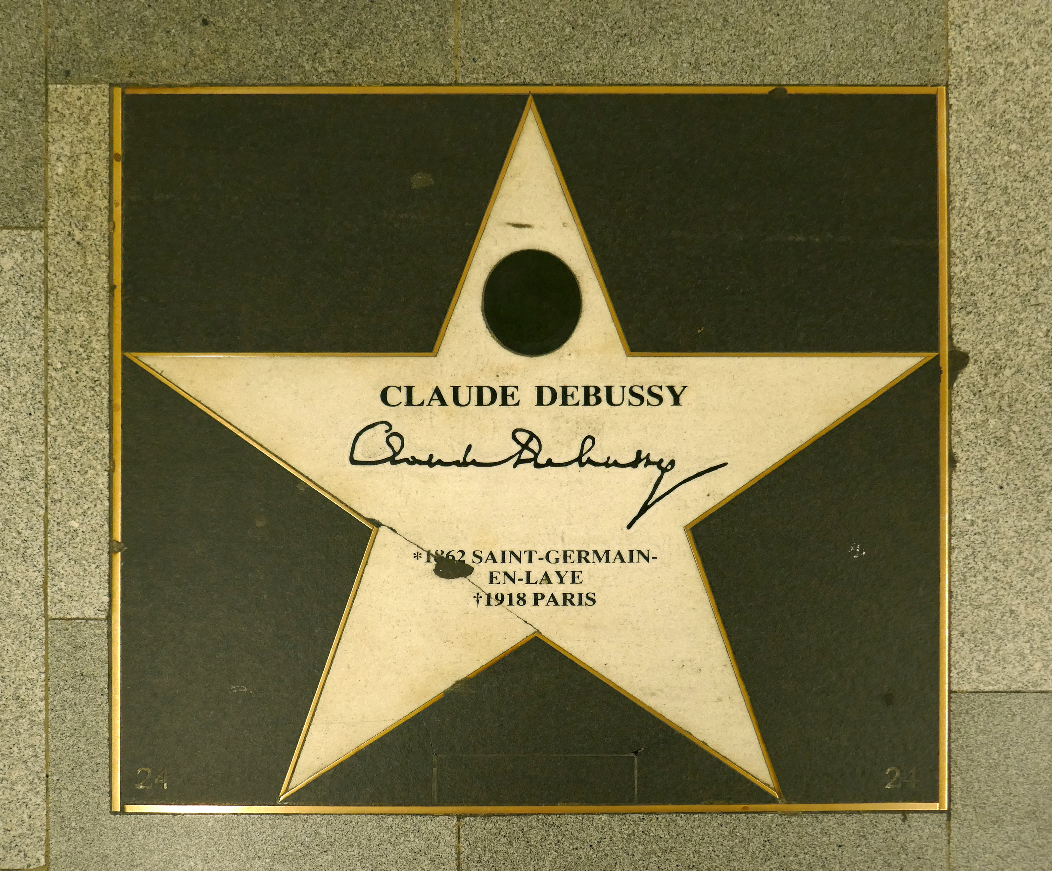 Walk of Fame Vienna Claude Debussy.